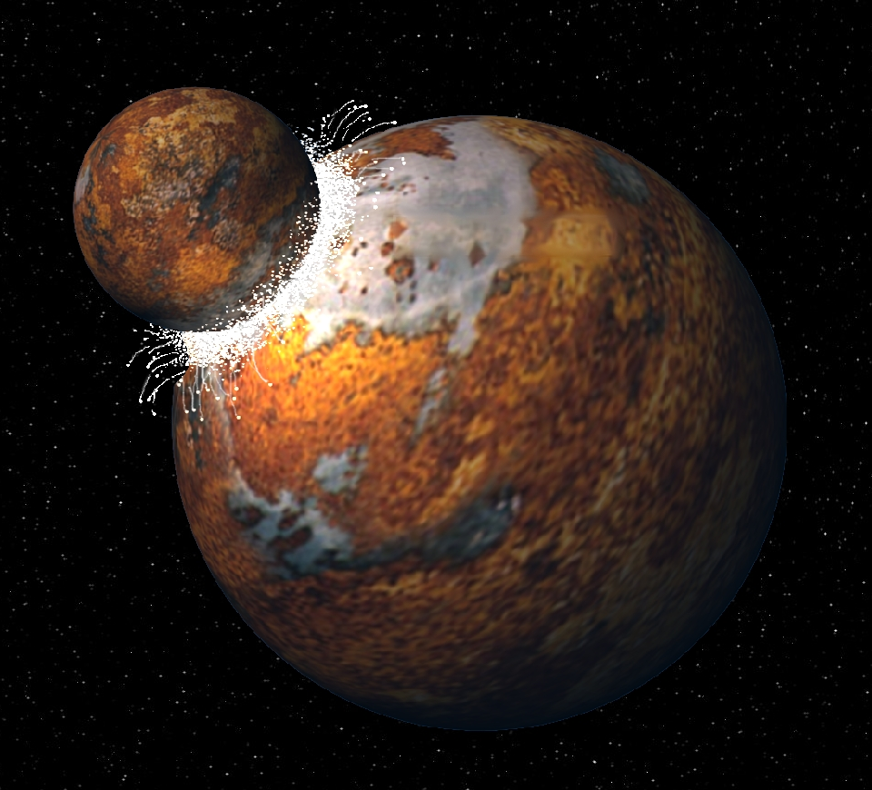 Giant impact - artist impression.